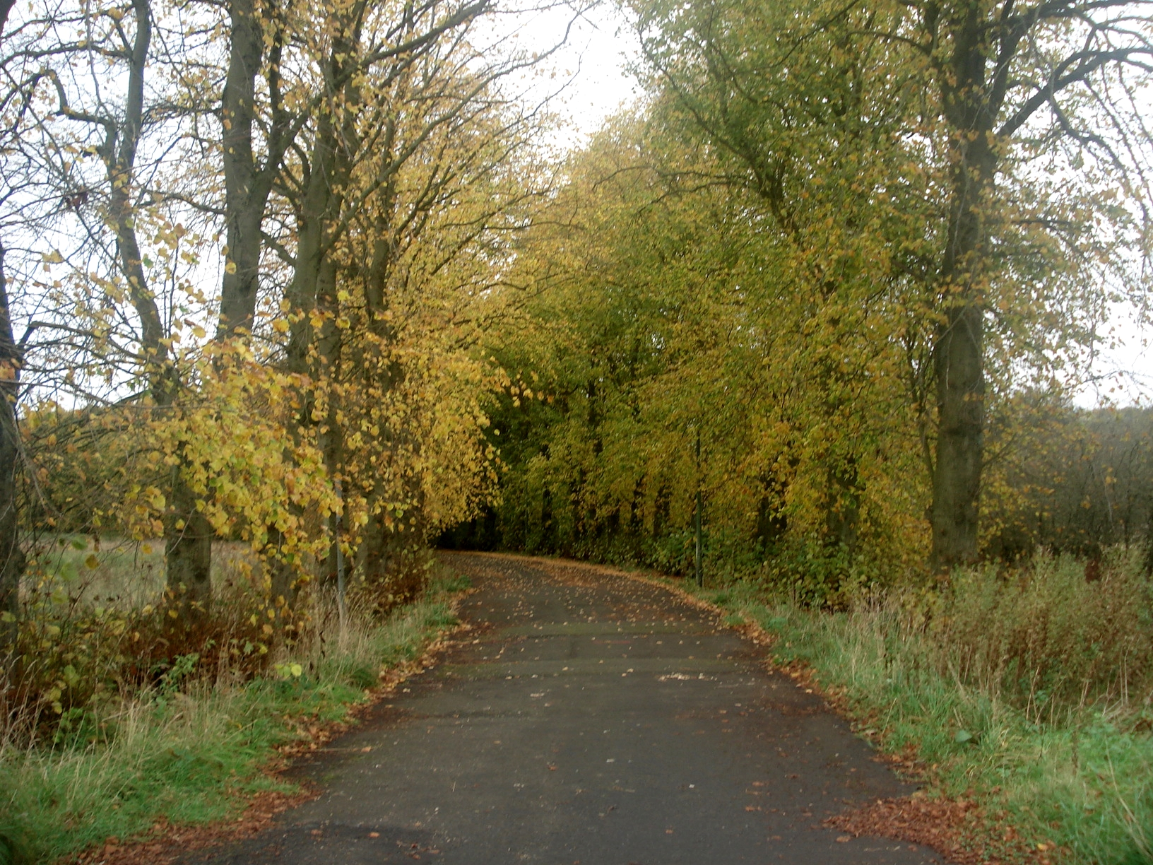 The road leading into the former site of Stoneyetts Hospital (originally Stoneyetts Certified Institution for Mental Defectives) in Moodiesburn.